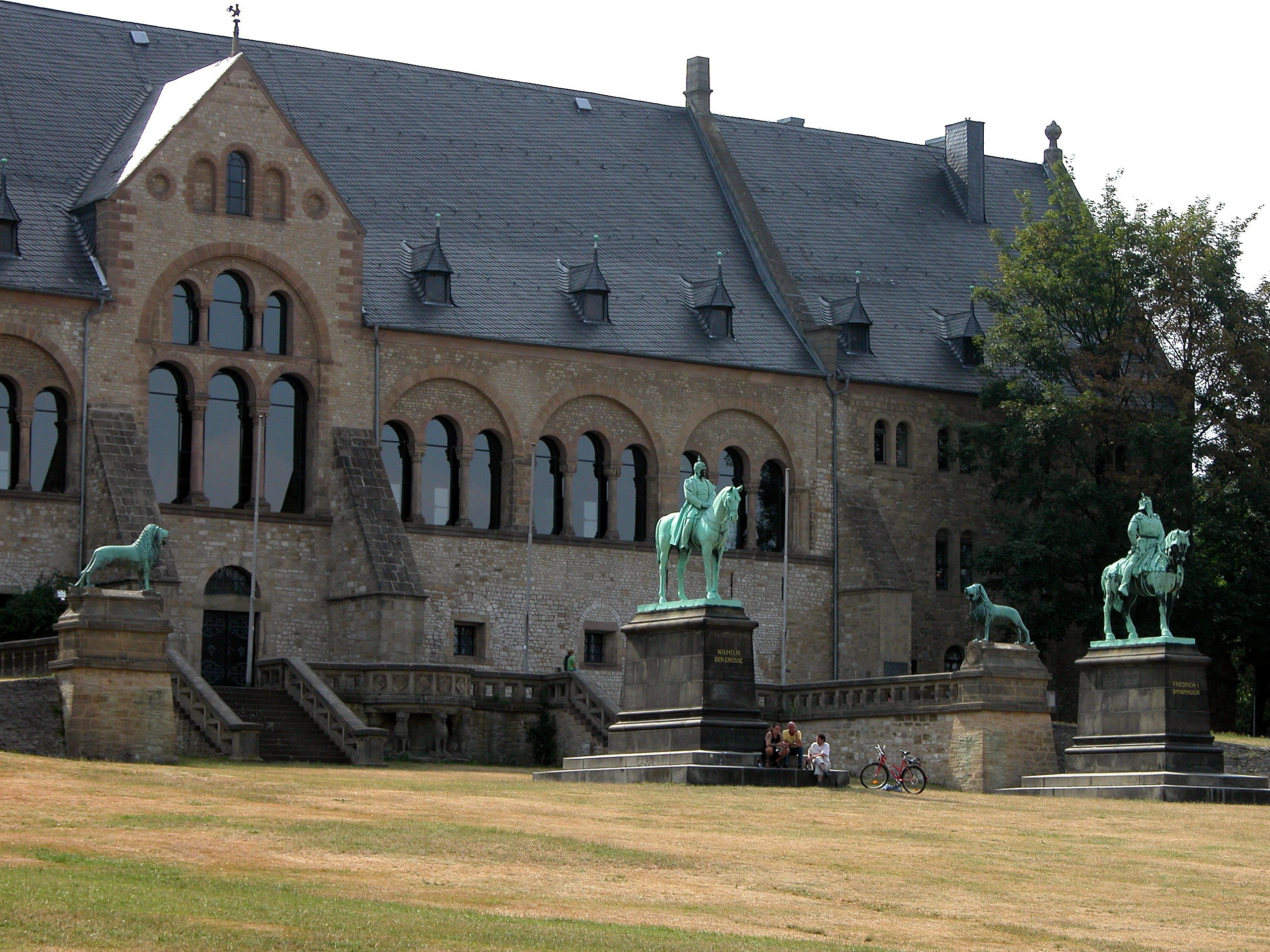 Goslar, Germany: Kaiserpfalz Goslar with two copies of the Braunschweiger Löwe (Brunswick Lion).